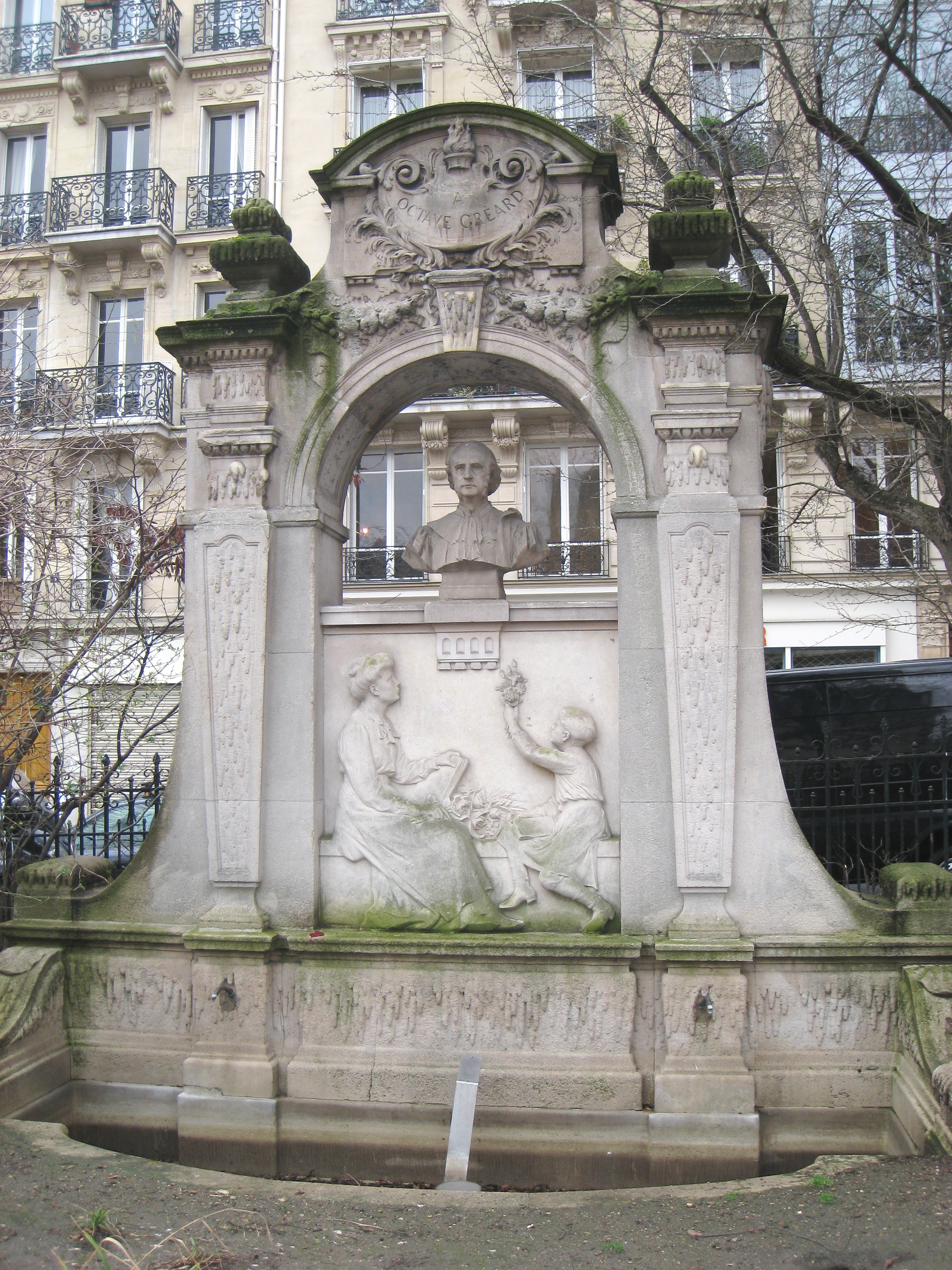 Square Paul Painlevé, Paris, France - memorial to Octave Gréard (1828-1904) by Henri Paul Nénot (1853-1934) and Jules-Clément Chaplain (1839-1909). Copyright restrictions (if any) have long since expired as the sculptors died more than 70 years ago.